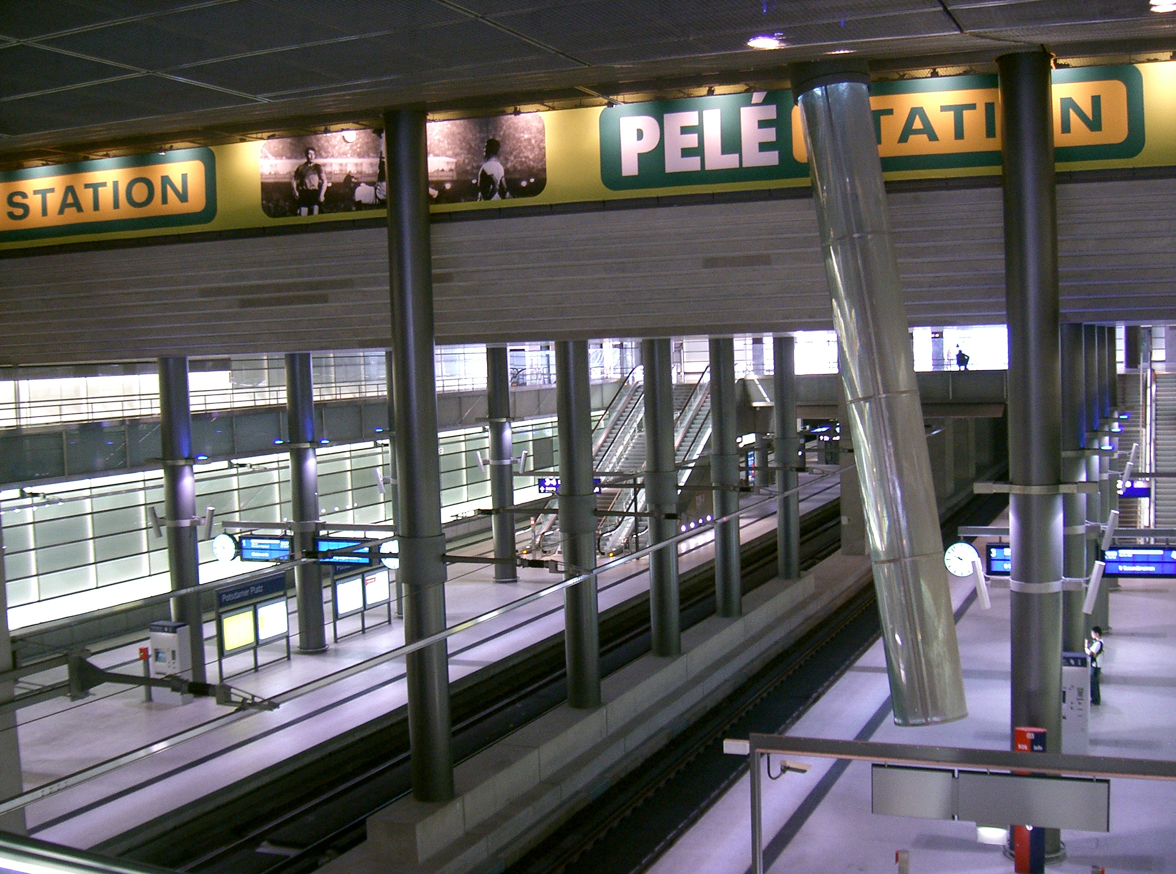 Platforms of the railway station Berlin Potsdamer Platz. On the top of the picture the platform of a planned Berlin U-Bahn line can be seen (with poster), which will cross the railway lines. It is now used for events.